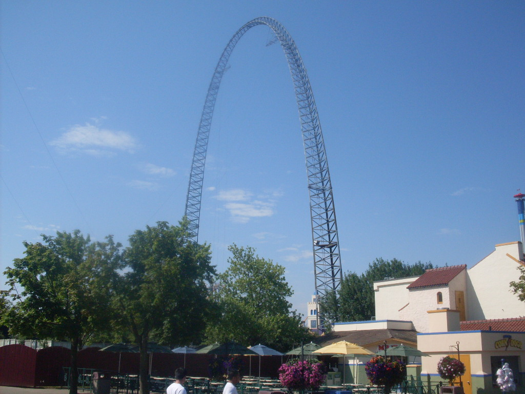 The Xtreme SkyFlyer (or Skycoaster) amusement ride at Canada's Wonderland in Vaughan, Ontario, Canada.